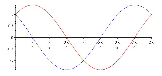 Graph of the cas-function (solid line) and the cas*-function (dashed line)